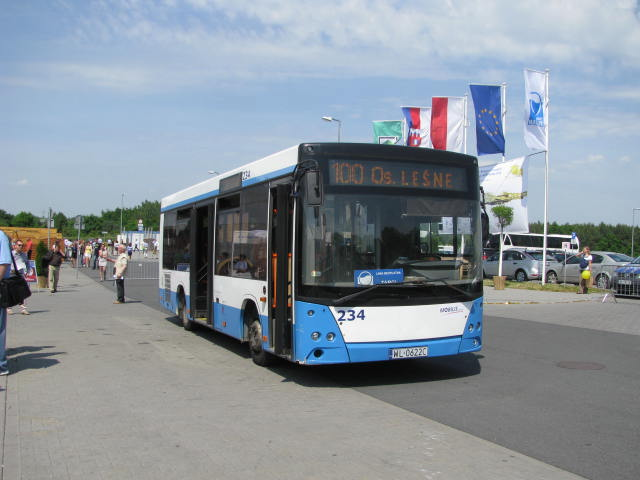 MAZ 226.067 bus (МАЗ-226.067, #234, reg. WL 0622C, built 2007) in Bydgoszcz, Poland. Mobilis from Mościska operator.